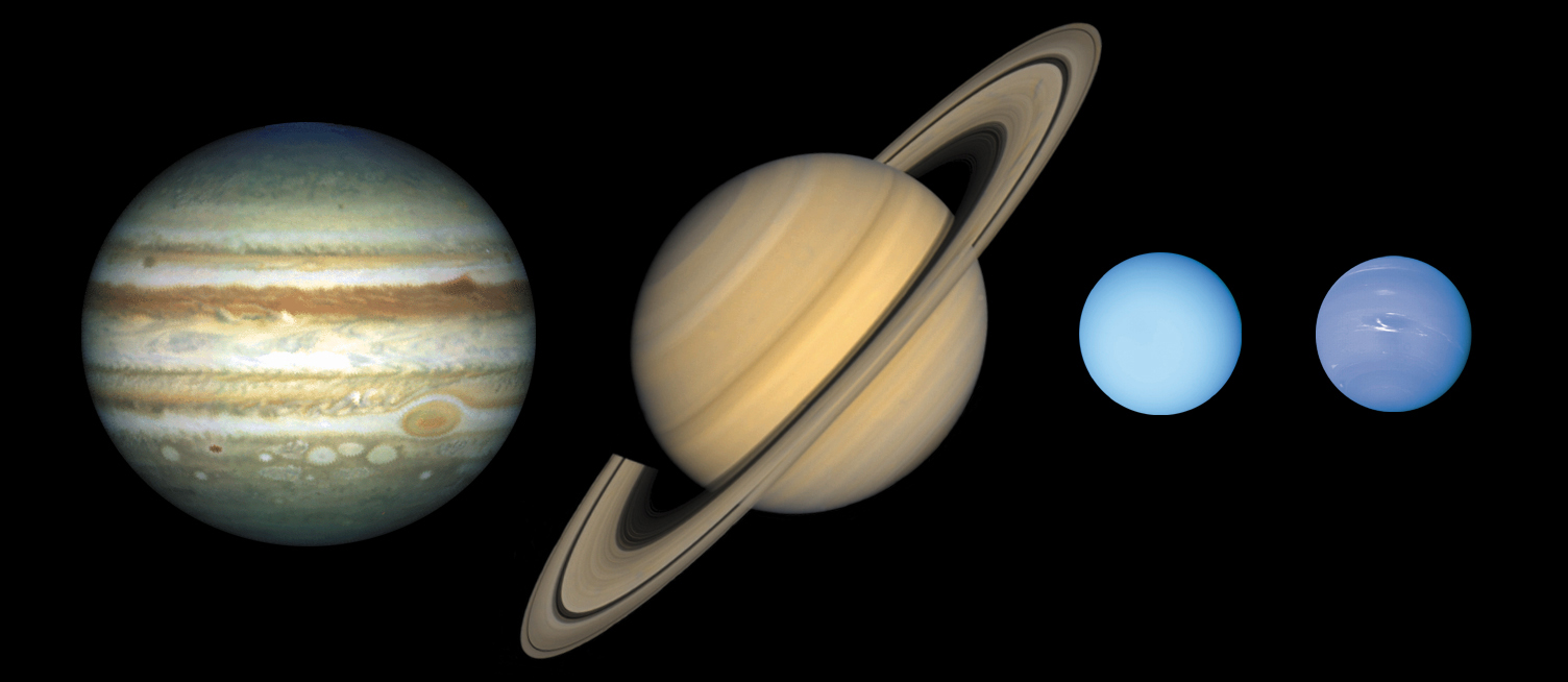 Jupiter, Saturn, Uranus, and Neptune are known as the jovian (Jupiter-like) planets because they are all gigantic compared with Earth, and they have a gaseous nature like Jupiter's. The jovian planets are also referred to as the gas giants, although some or all of them might have small solid cores. This diagram shows the approximate relative sizes of the jovian planets.